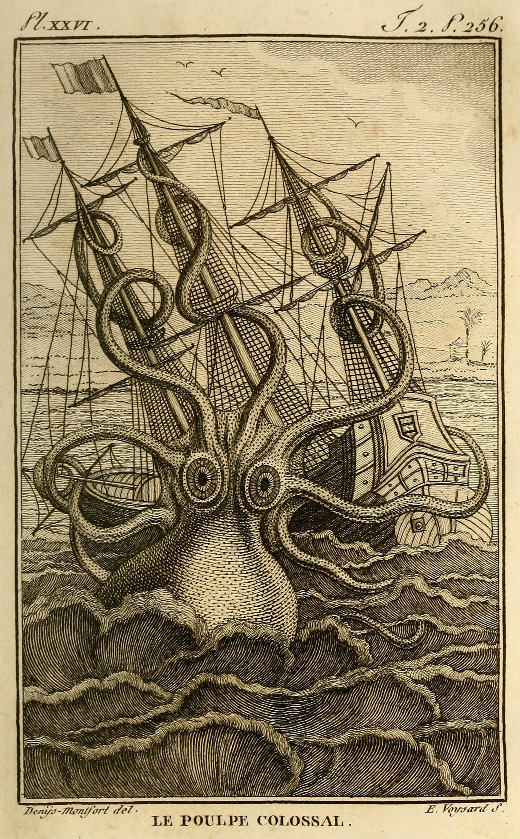 "Le Poulpe Colossal" by malacologist Pierre Dénys de Montfort, 1801, from the descriptions of French sailors reportedly attacked by such a creature off the coast of Angola.